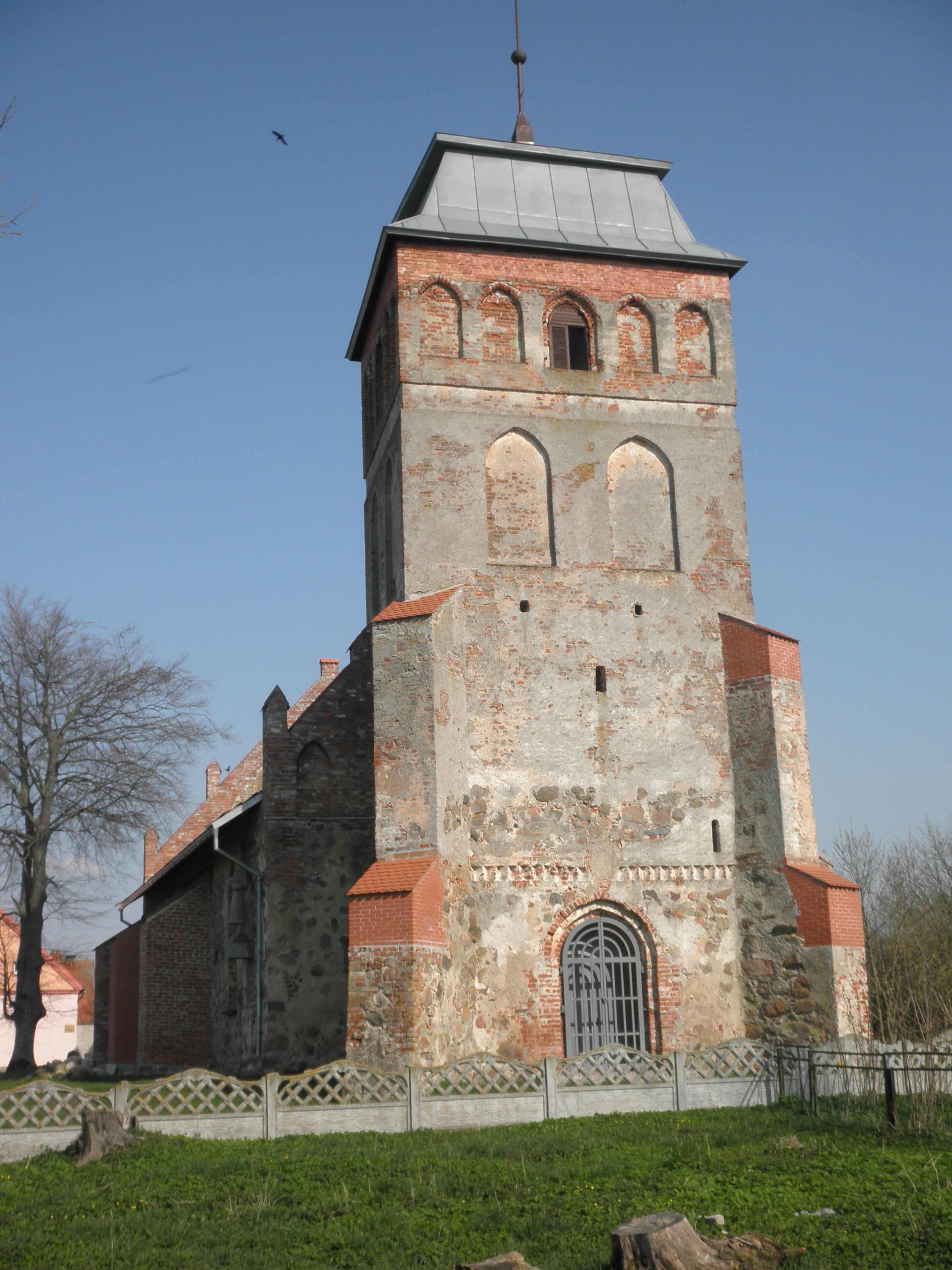 Church in Turgenewo (Kaliningrad) in Russia